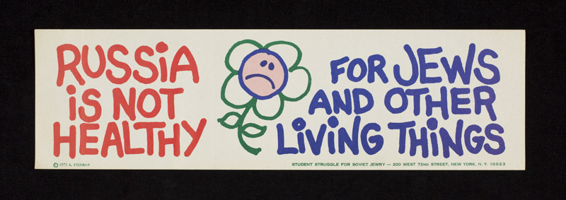 Date: undated Medium: Ephemera, paper sticker Repository: American Jewish Historical Society Parent Collection: Papers of Morey Schapira (P-906) Link to Digital Object: Call number: aa-p906-b73-f09-006 The sticker was originally found in Box 73 of the Papers of Morey Schapira (P-906). See more information about this image and the collection by viewing the finding aid: Rights Information: No known copyright restrictions; may be subject to third party rights. For more copyright information, click To inquire about rights and permissions, or if you have a question regarding the collection to which the image belongs, please contact the Reference Department of the American Jewish Historical Society by mailto: Digital images created by the Gruss Lipper Digital Laboratory at the Center for Jewish History. Digitization of select American Soviet Jewry Movement posters has been made possible through a generous grant from the National Historical Publications and Records Commission (NHPRC).